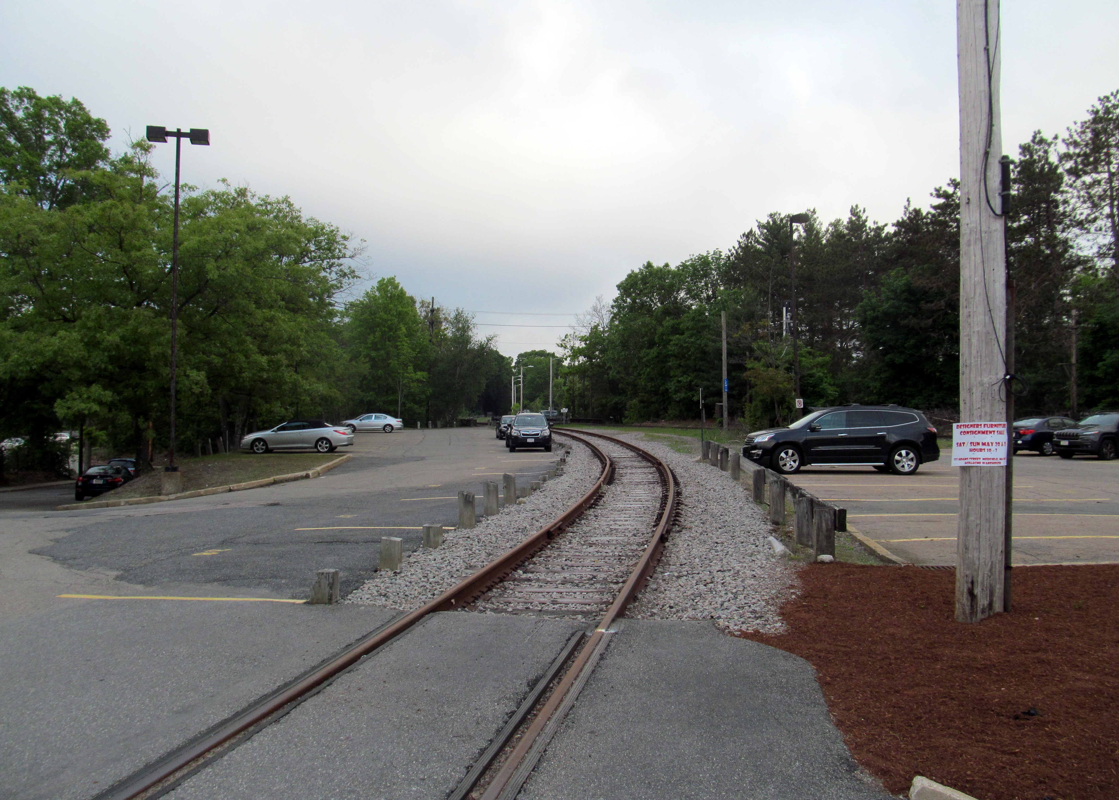 Connecting track (sometimes called Lewis's Wye) between the Franklin Branch and Framingham Secondary at Walpole Union Station in May 2017